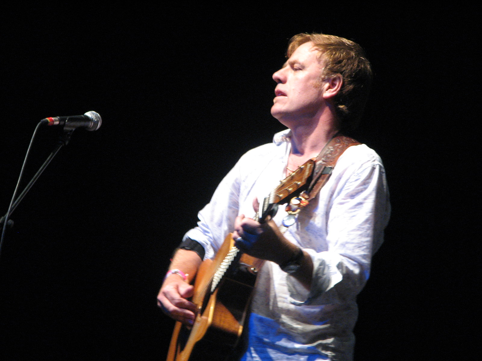 Martyn Joseph performing at the 2008 Greenbelt Festival.